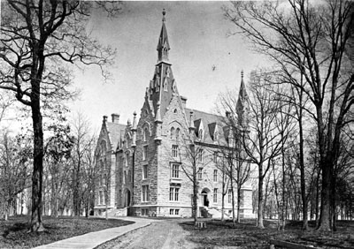 Source: NU Sesquicentennial Dated: 1877